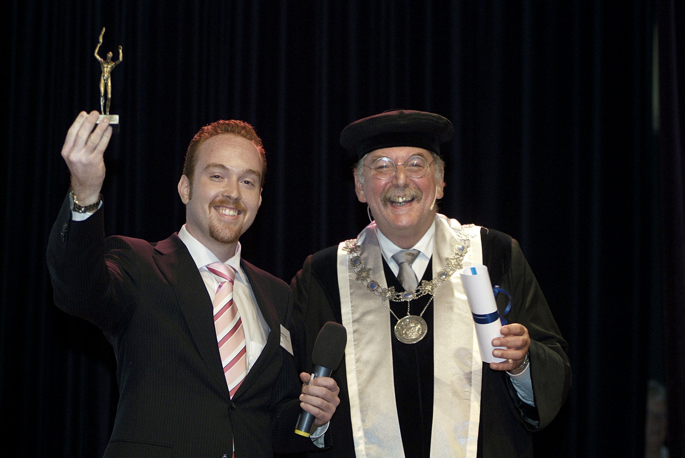 Fardad Zand receives the prestigious prize of "Rector Magnificus" from the dean of Delft University of Technology in 2006.